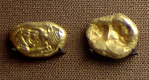 Lydian coin. 6th century BC. Pergamonmuseum. Berlin